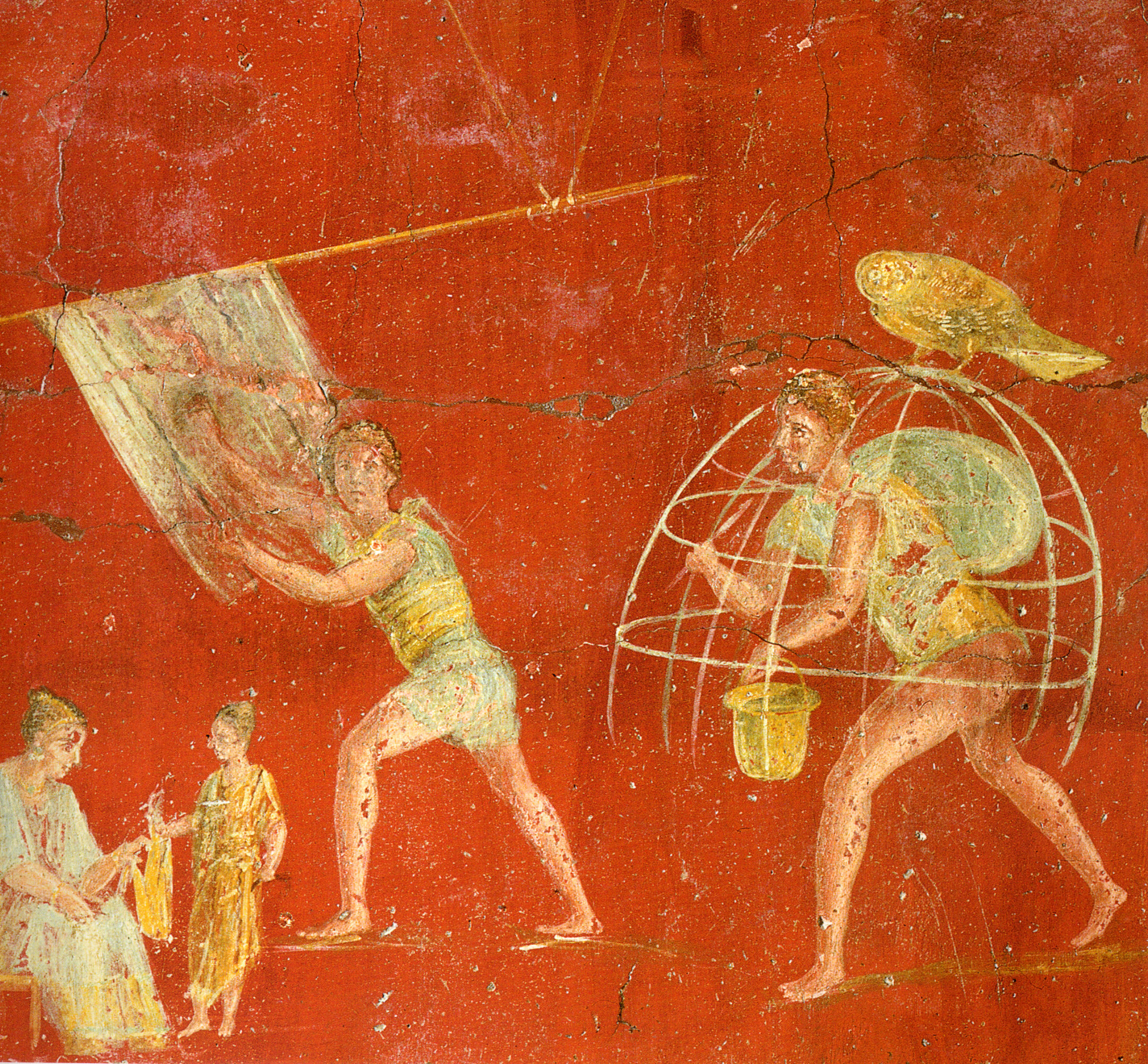 Roman fresco from the fullonica (dyer's shop) of Veranius Hypsaeus in Pompeii. Museo Archeologico Nazionale (Naples). The man on the left is busy brushing wool cloth. The man on the right, standing beneath a caged dome, is engaged in fabric whitening via sulphurized fumigation. An owl is perched on top of the cage, likely a symbol of Athena, protector of the lanaiuoli (i.e. companies of wool merchants).